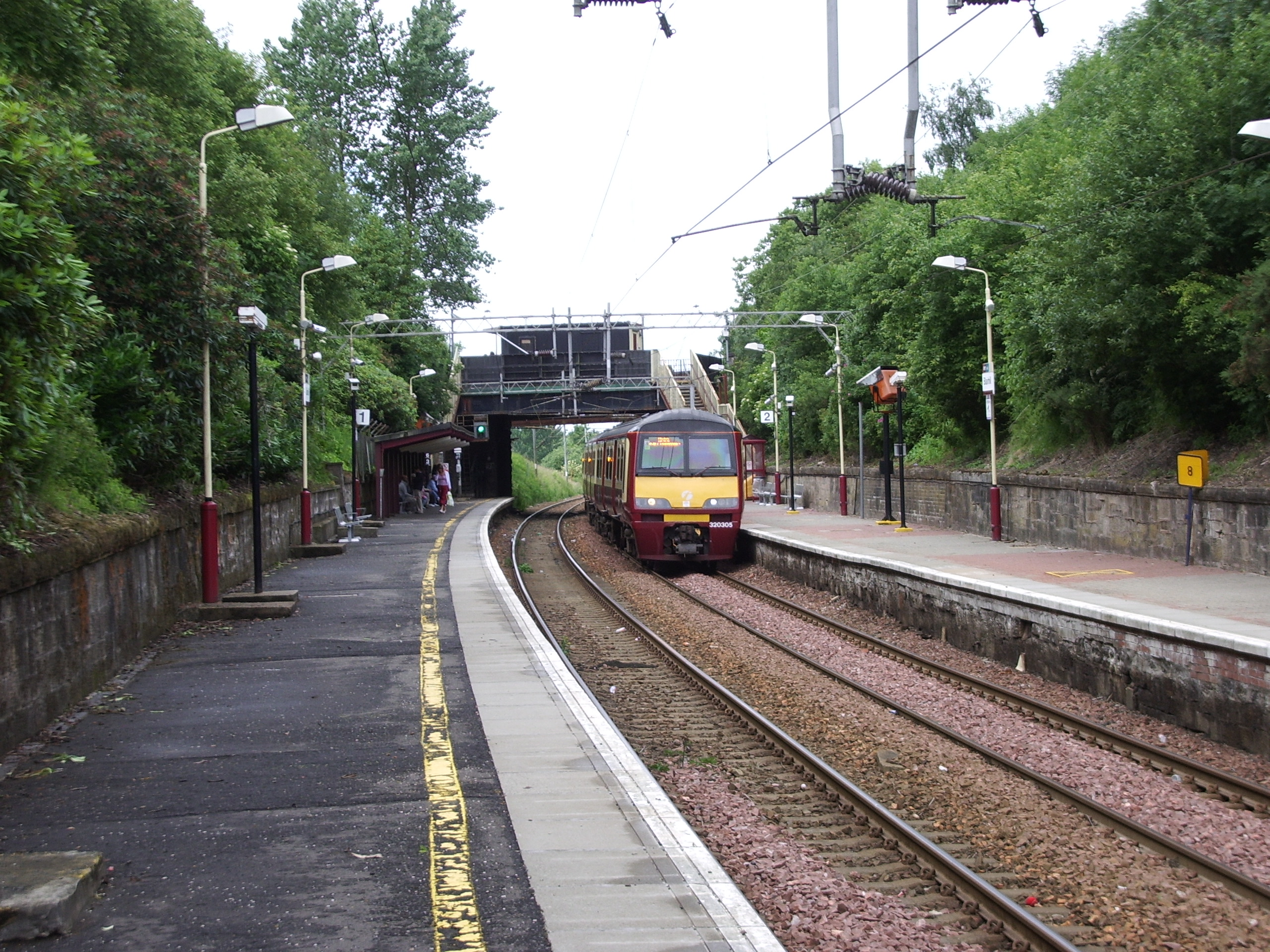 Blairhill railway station, Coatbridge, Scotland, looking west